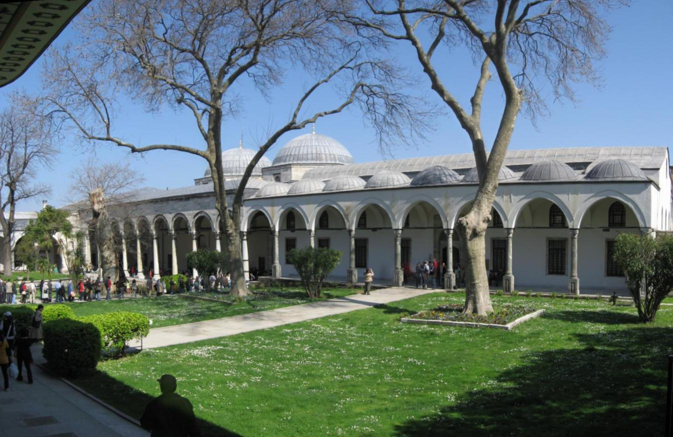 View of the Conqueror's Pavillon, where the Imperial Treasury is kept.